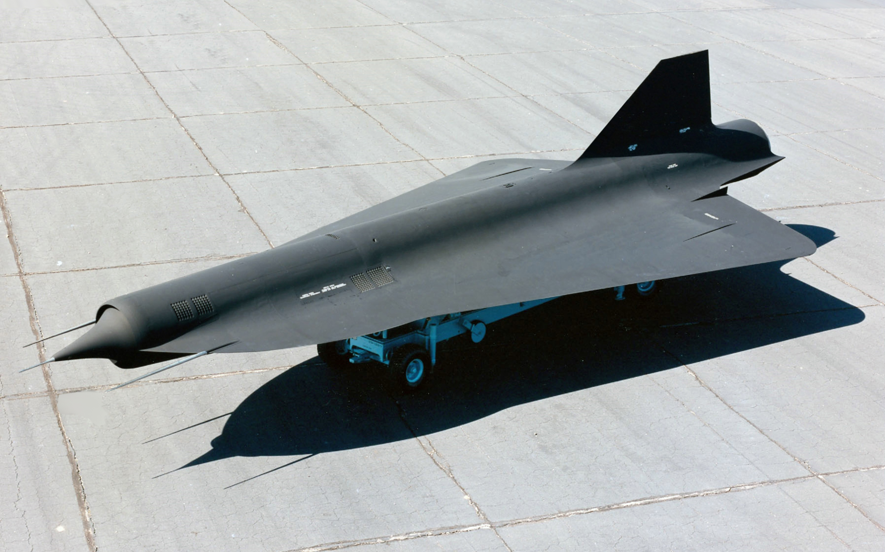 Lockheed D-21B at the National Museum of the United States Air Force